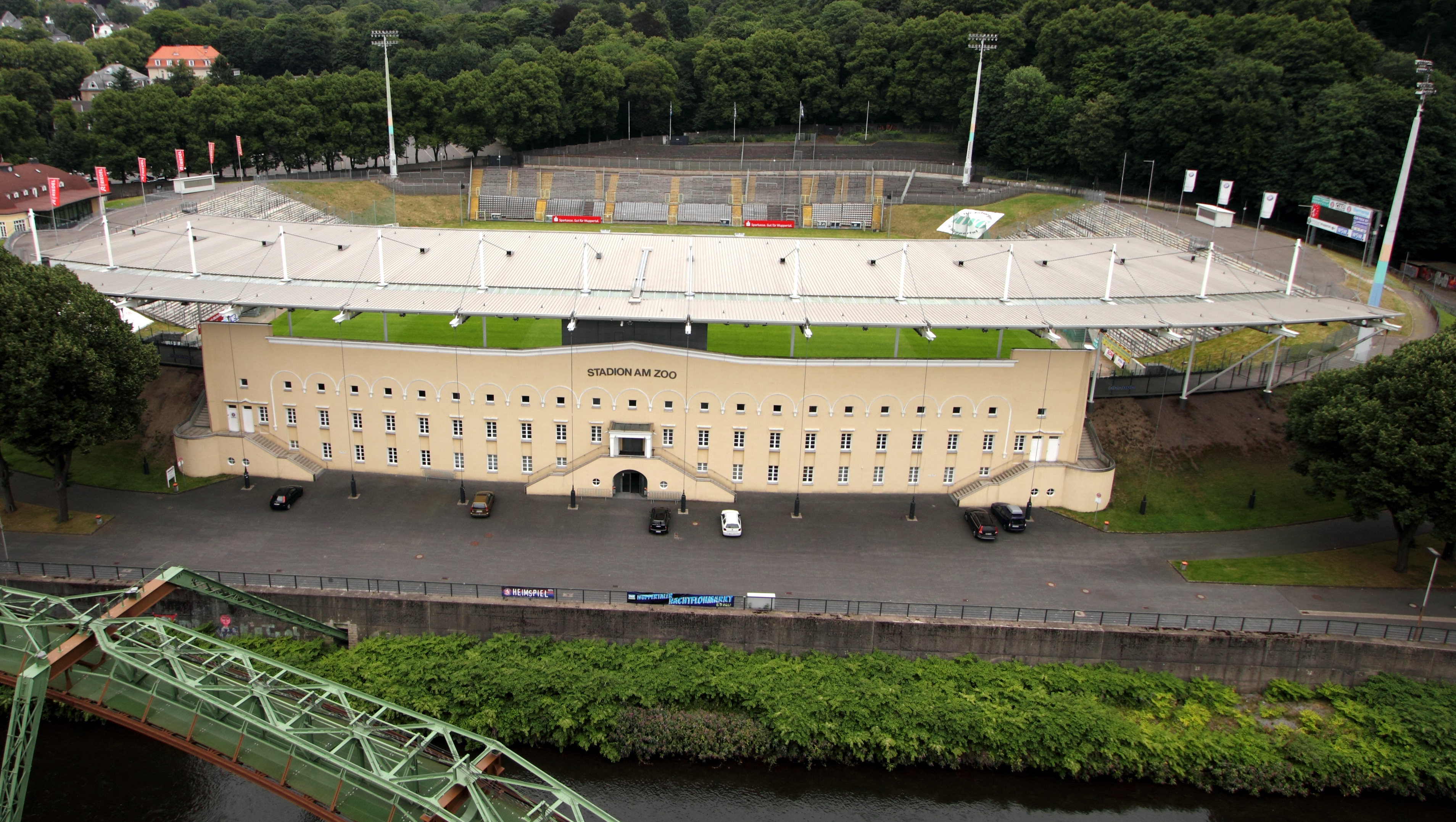 View from spire of the Hauptkirche Sonnborn on the historical front of the "Stadion am Zoo"